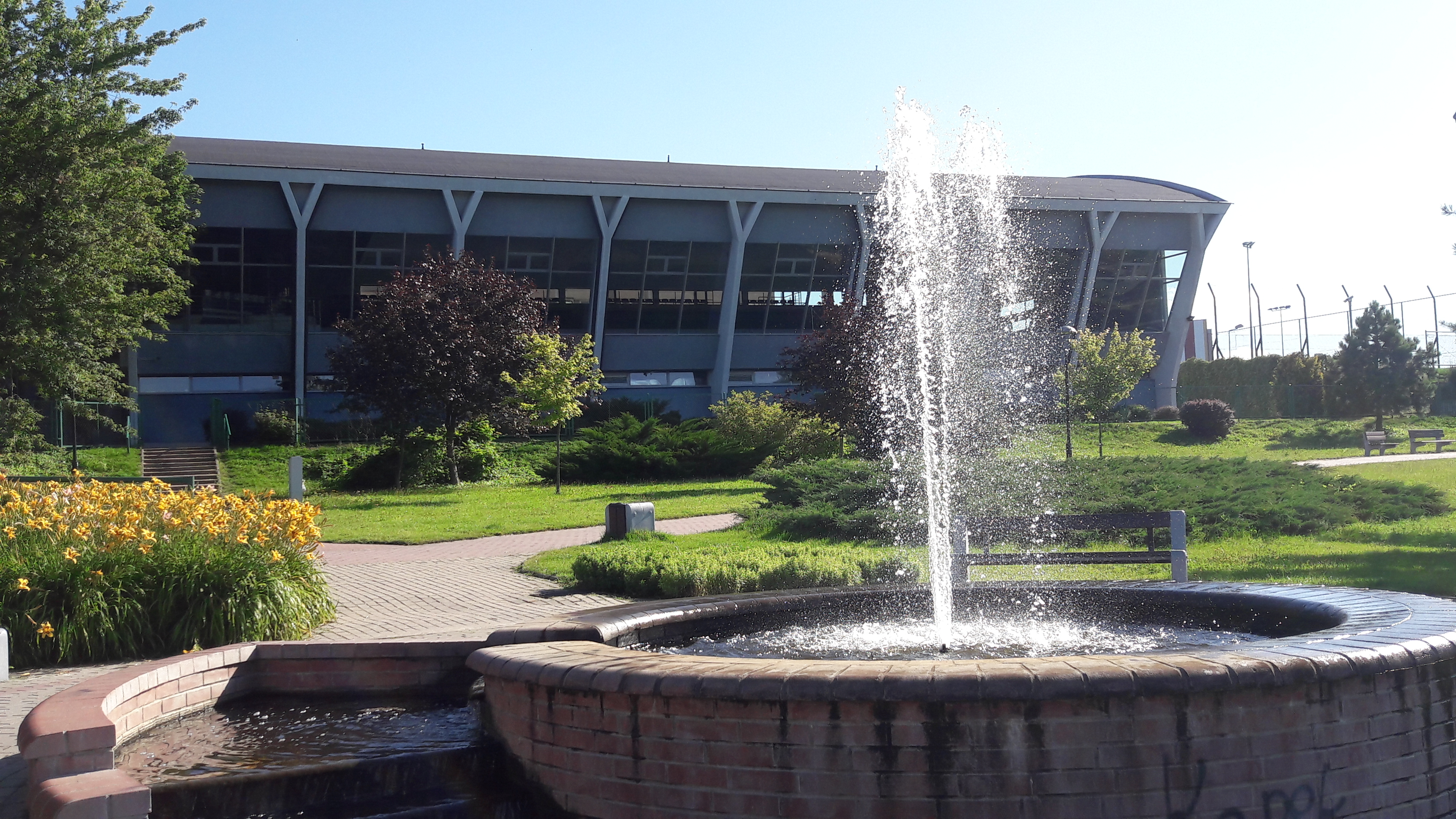 Pływalnia i fontanna